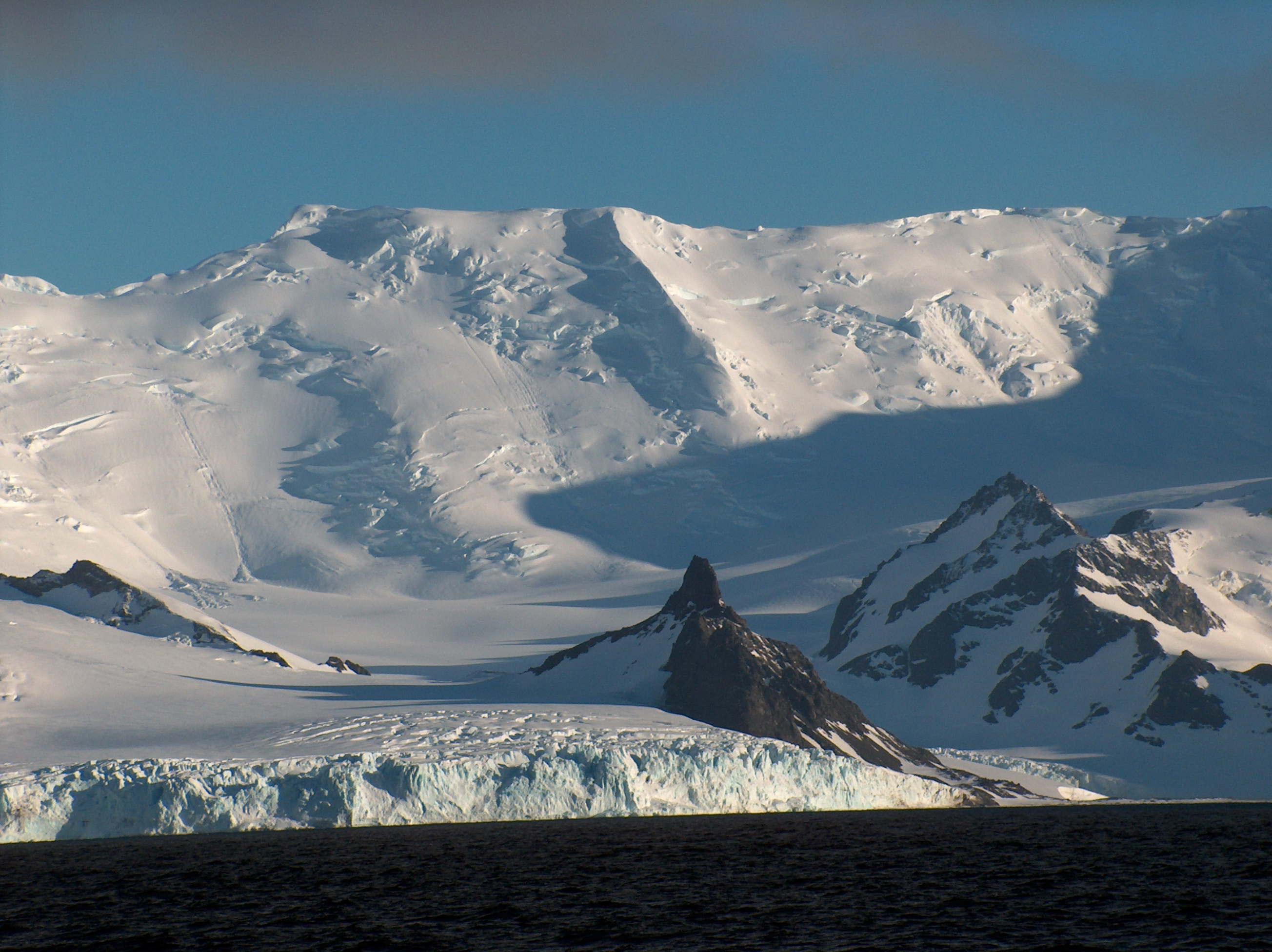 Needle Peak on Livingston Island in Antarctica from ROU Vanguardia, with Levski Peak and St. Ivan Rilski Col in the background